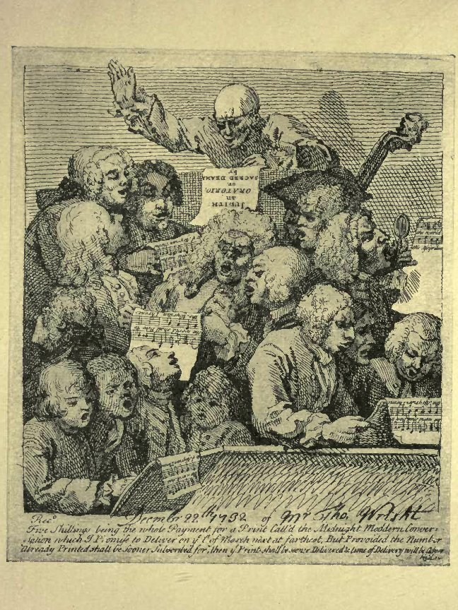 Etching by William Hogarth of a rehearsal of The world shall bow to the Assyrian throne from the lost oratorio Judith of Willem de Fesch to words by William Huggins